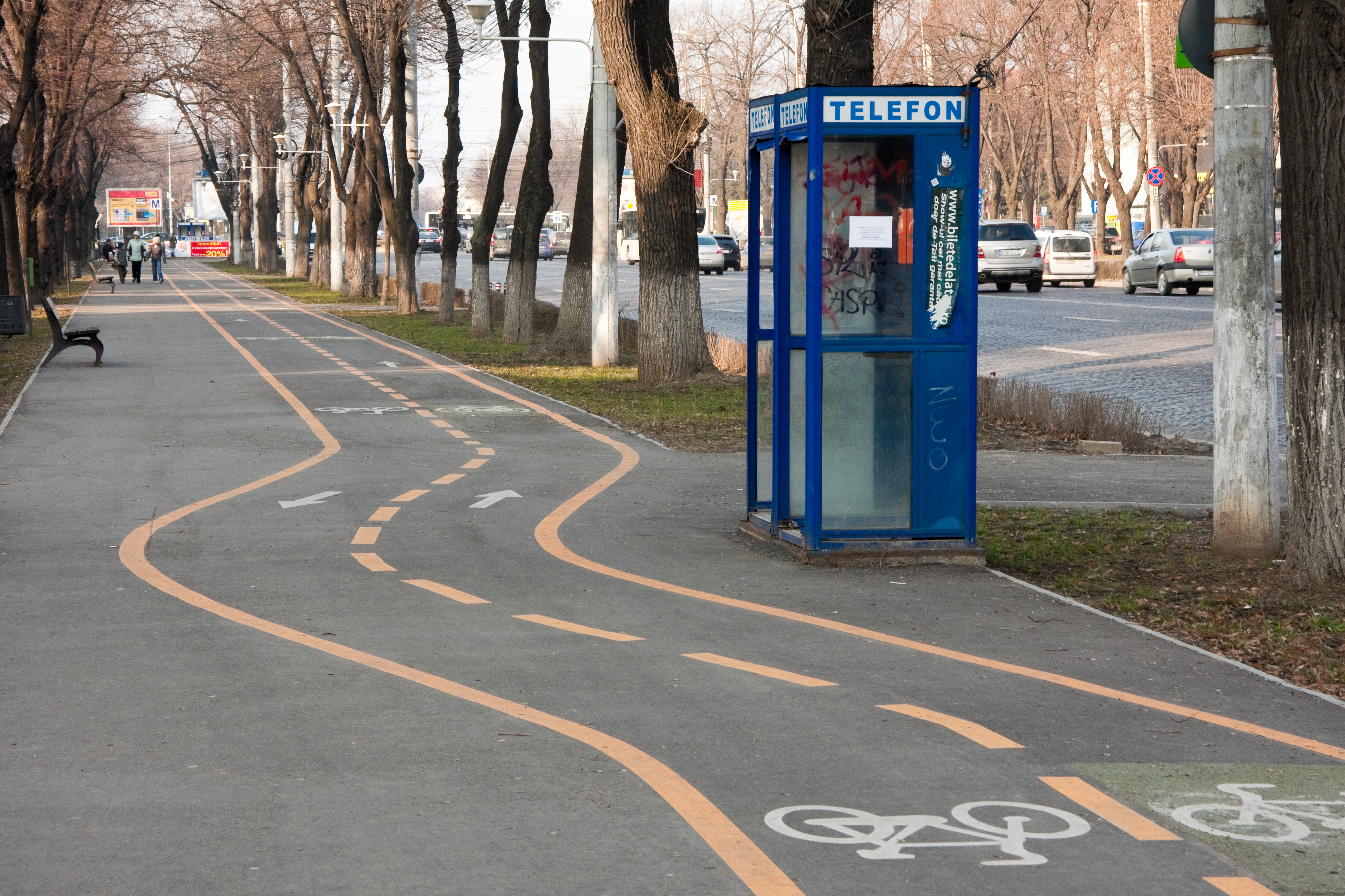 A blue decayed telephone booth on the sidewalk of a large bulevard in Bucharest, stands in the way of a bicycle track. As a workaround, the orange rubber bands are circling around it.